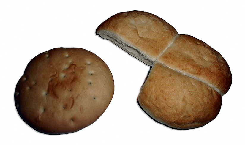 two typically Chilean breads: hallulla (left) and marraqueta (right)